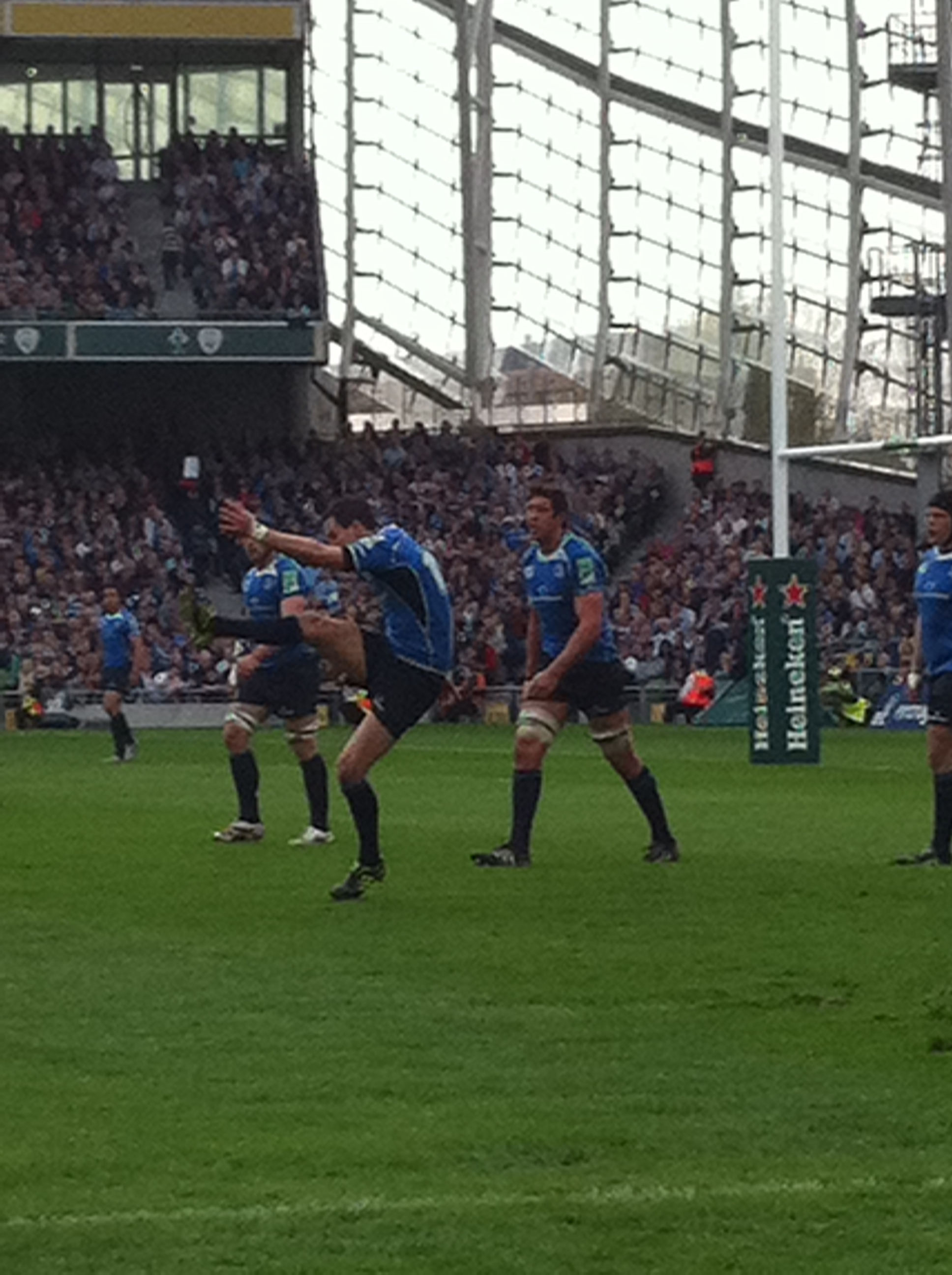 Jonathan Sexton during the Heineken Cup Quarter Final 2011